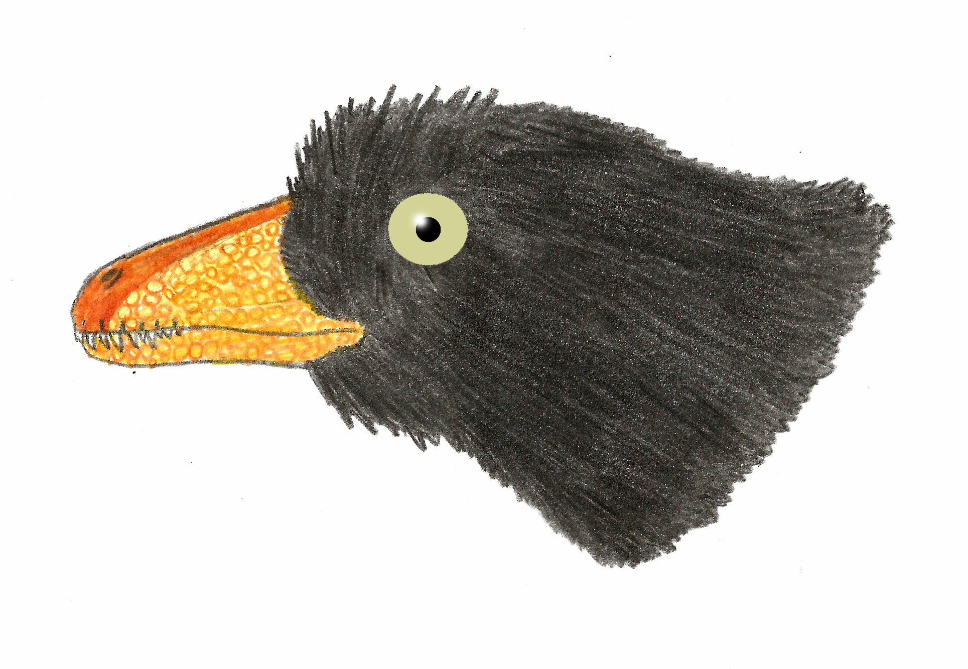 My drawing of Aorun.